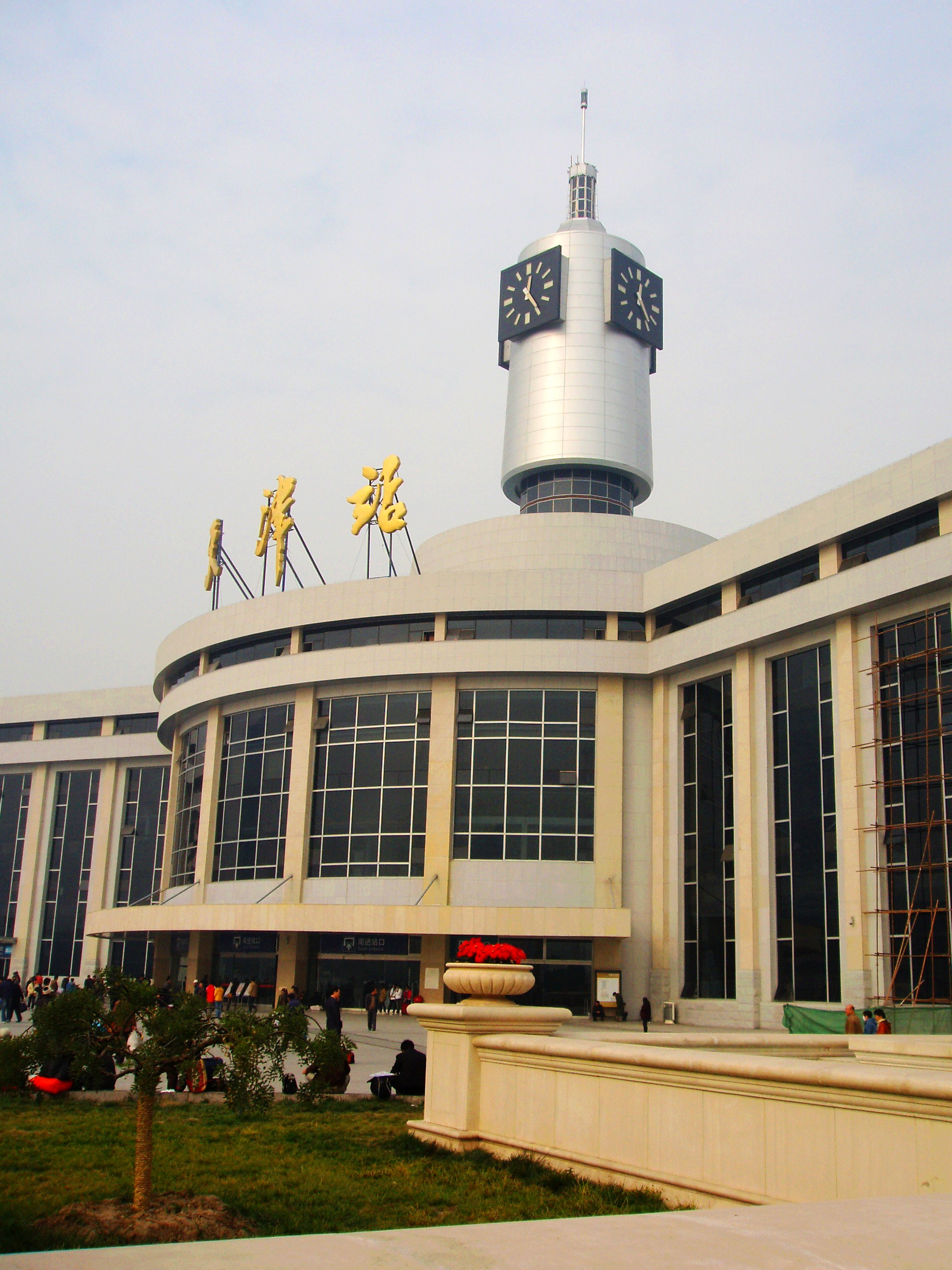 The railway staion of Tianjin,China.